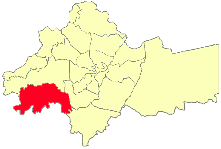 Amman districts